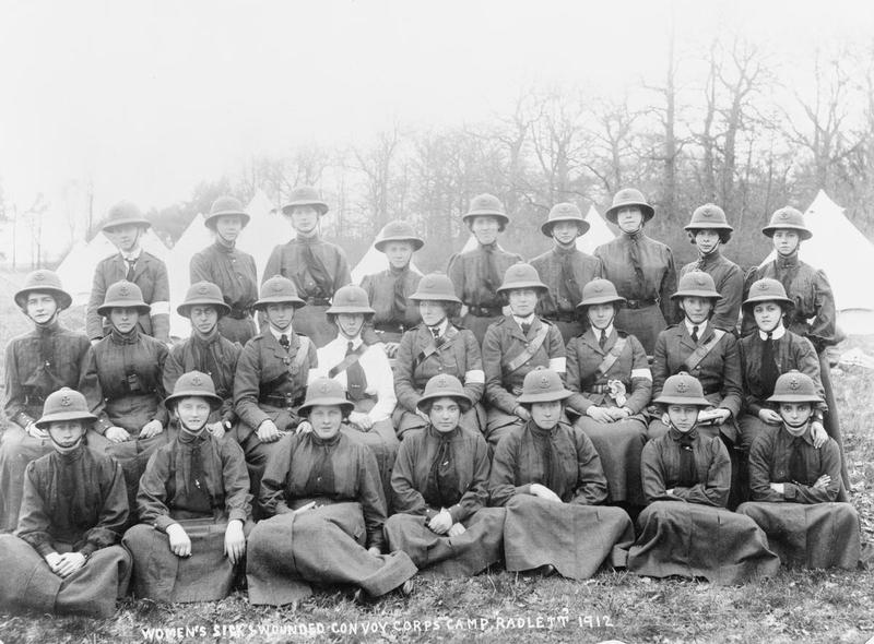 Women's Sick and Wounded Convoy Corps Group of the Women's Sick and Wounded Convoy Corps in Camp at Radlett in 1912, previous to their service in Bulgaria. Mrs St Clair Stobart is sixth from left, centre row.